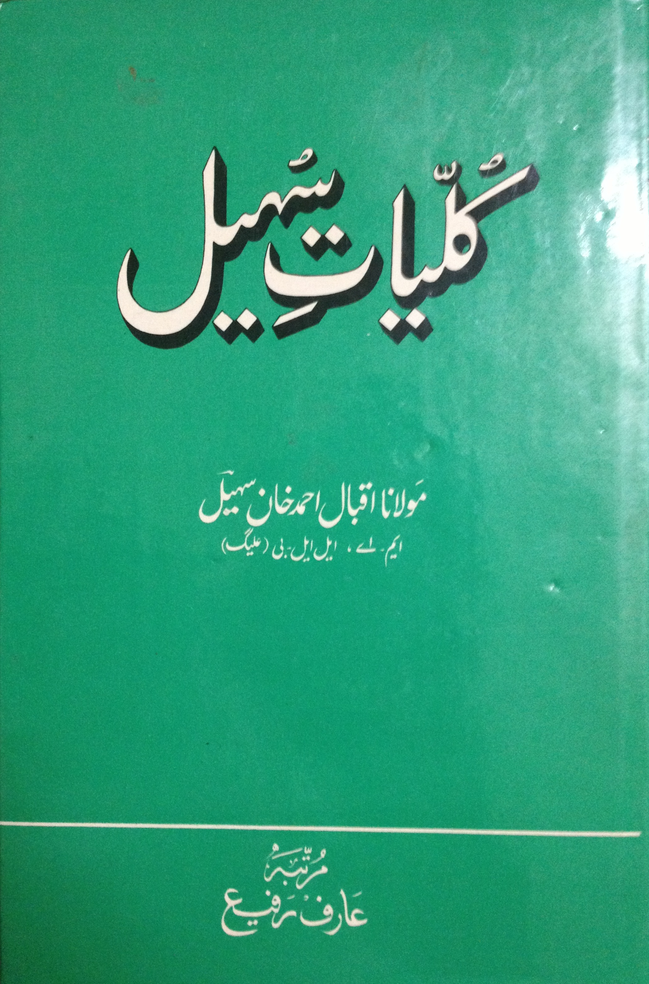 This was clicked from the book